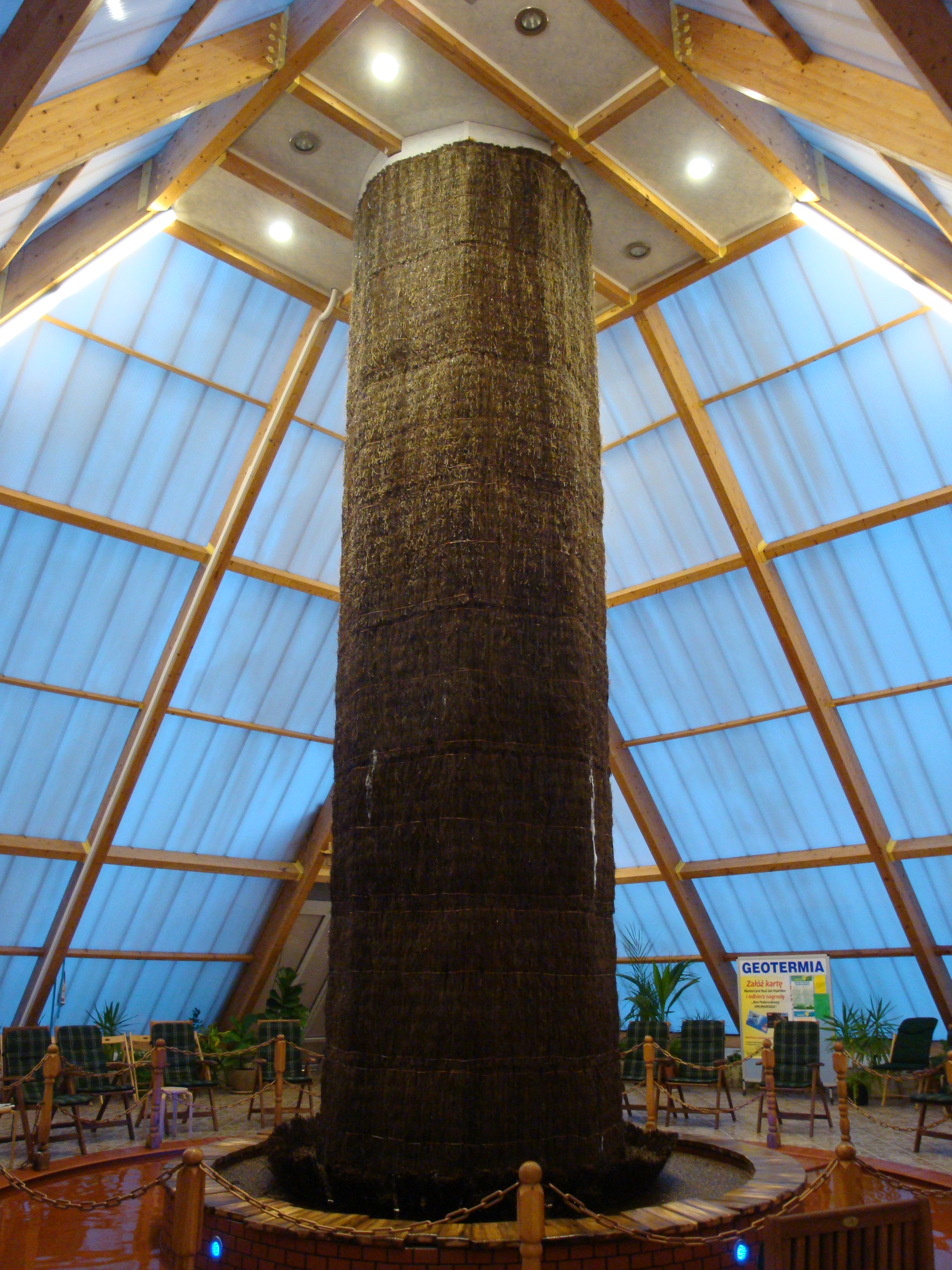 Graduation tower room in Grudziądz Spa - OpenStreetMap (Info)